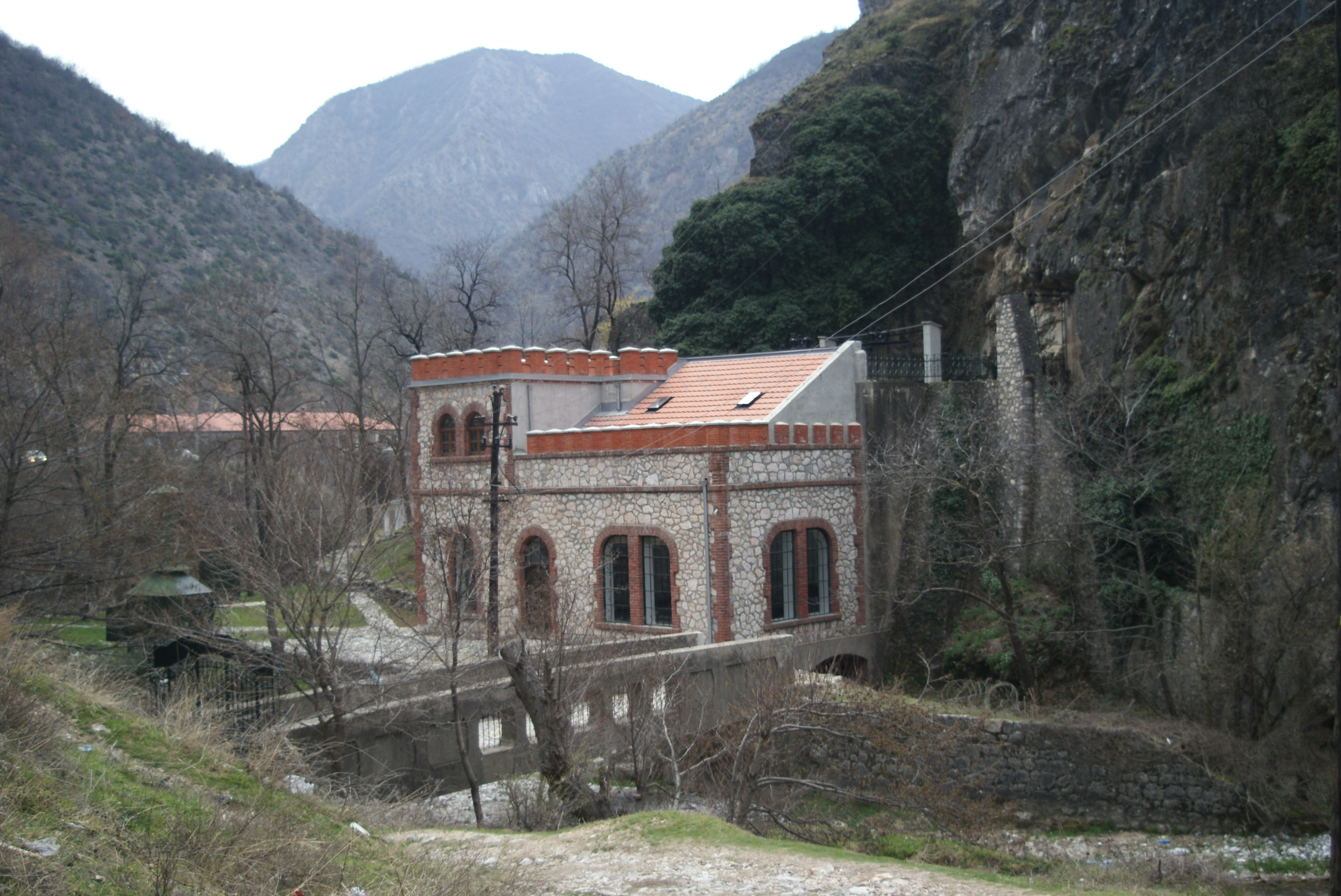 Prizenasja